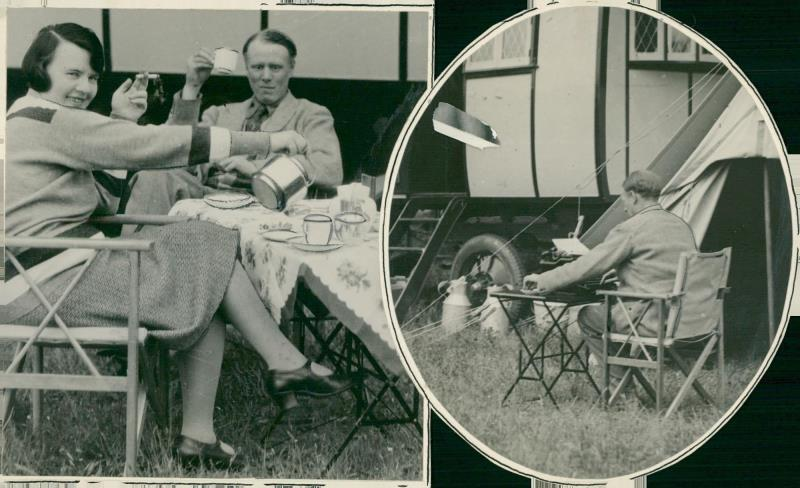 Portrait American author Sinclair Lewis, Nobel Prize in Literature 1931